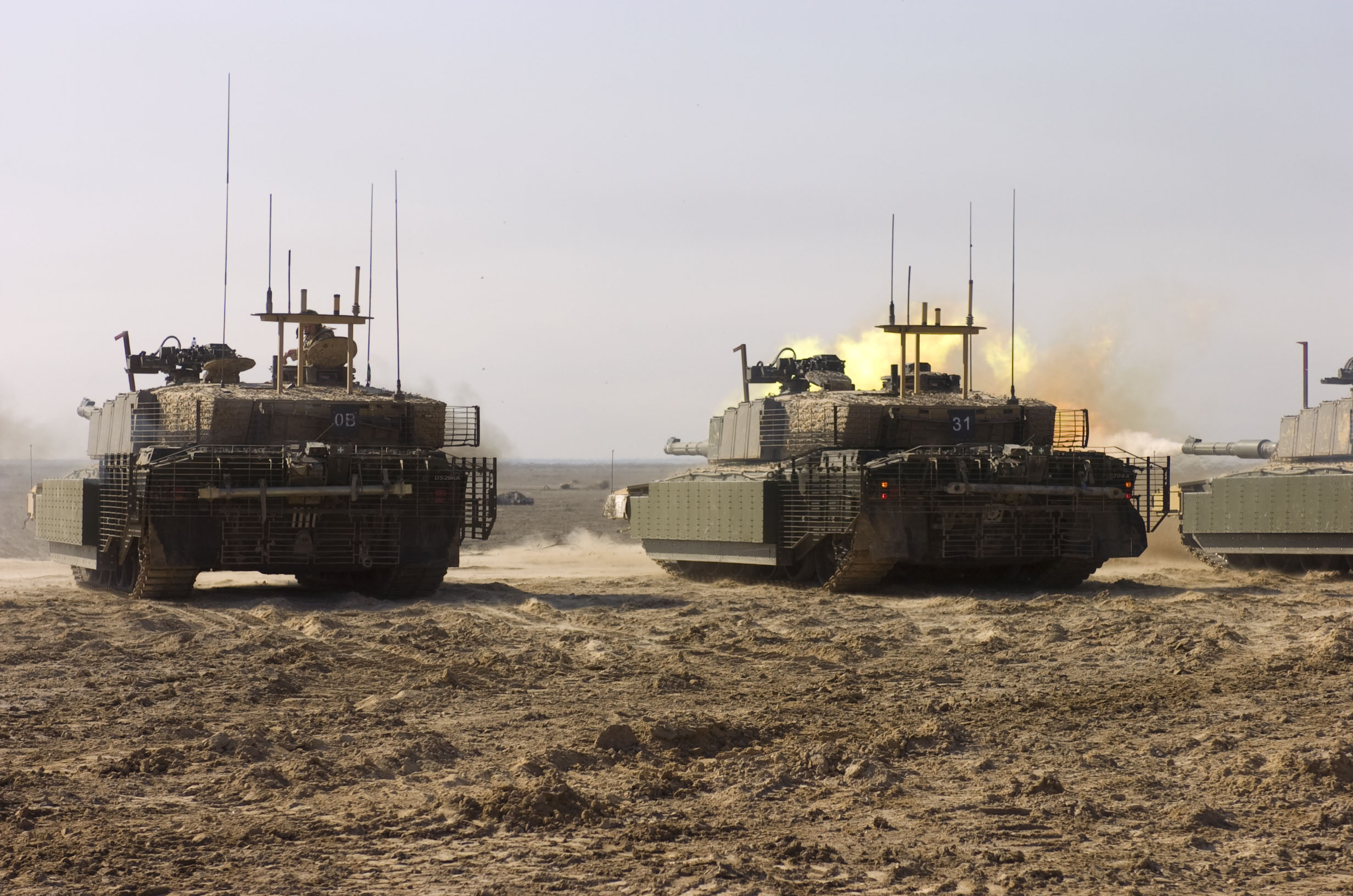 A British Royal Scots Dragon Guards, Challenger II, main battle tank fires its main gun on a target during a training exercise Nov. 17, 2008, in Basra, Iraq.